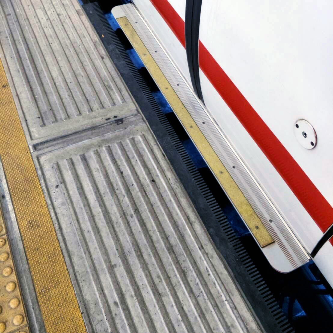 Platform gap filler in Thailand